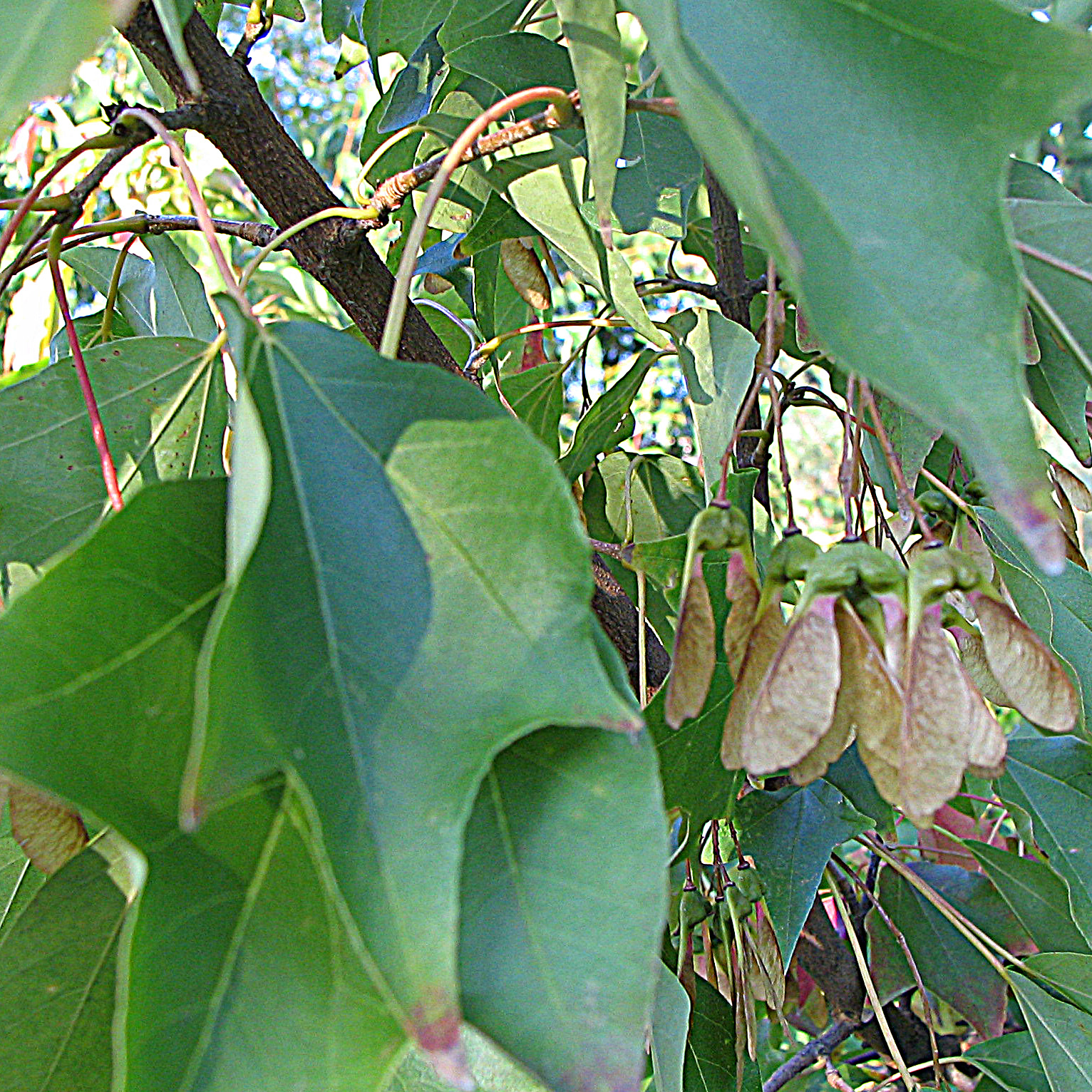 Acer buergerianum leaves and fruits